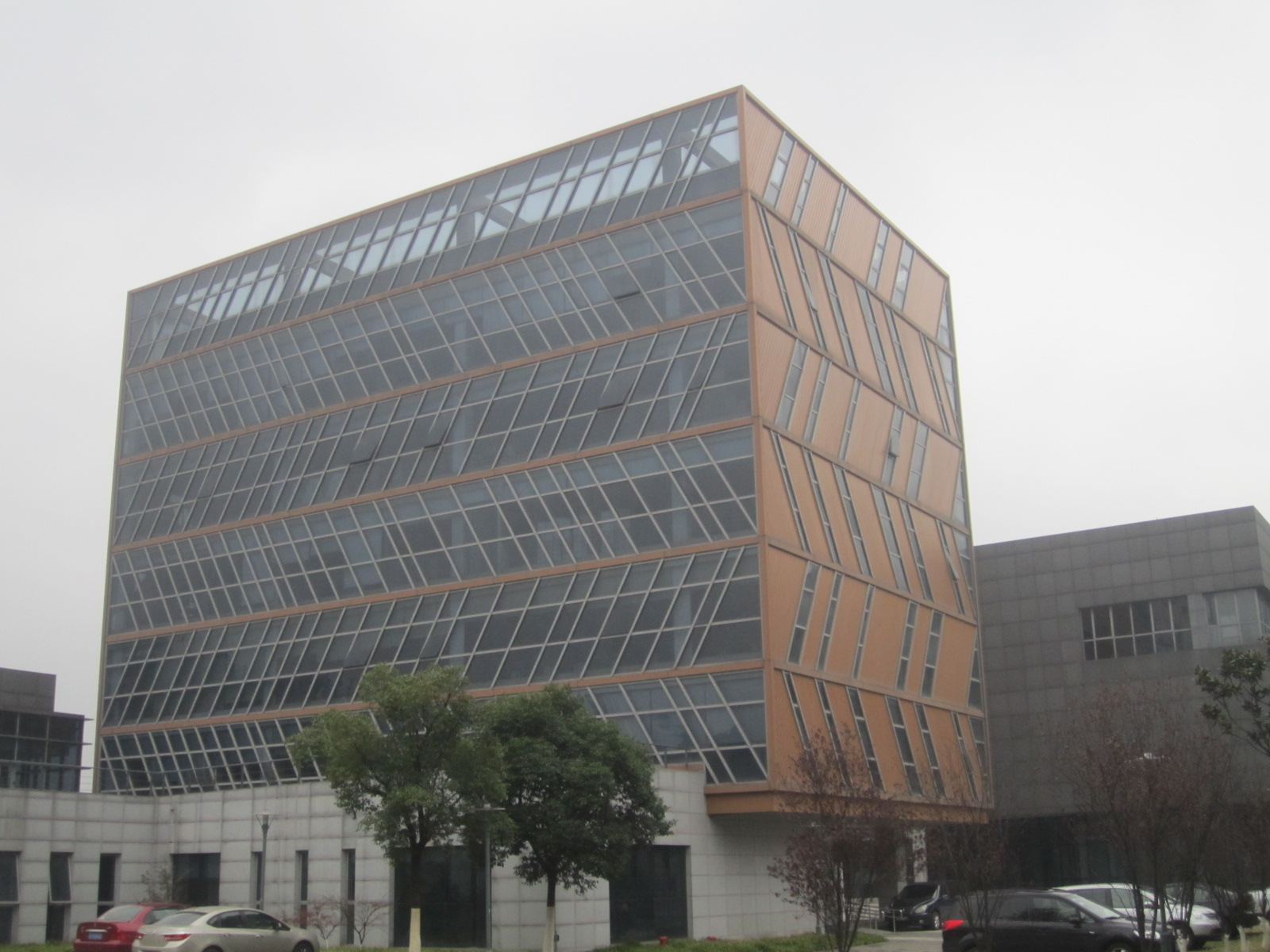 Suzhou Software Technology Park Office.